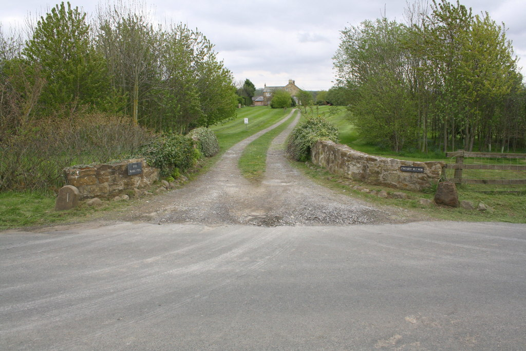 Entrance track to The Mallards, Crosby Manor